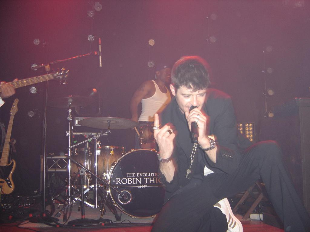 Robin Thicke